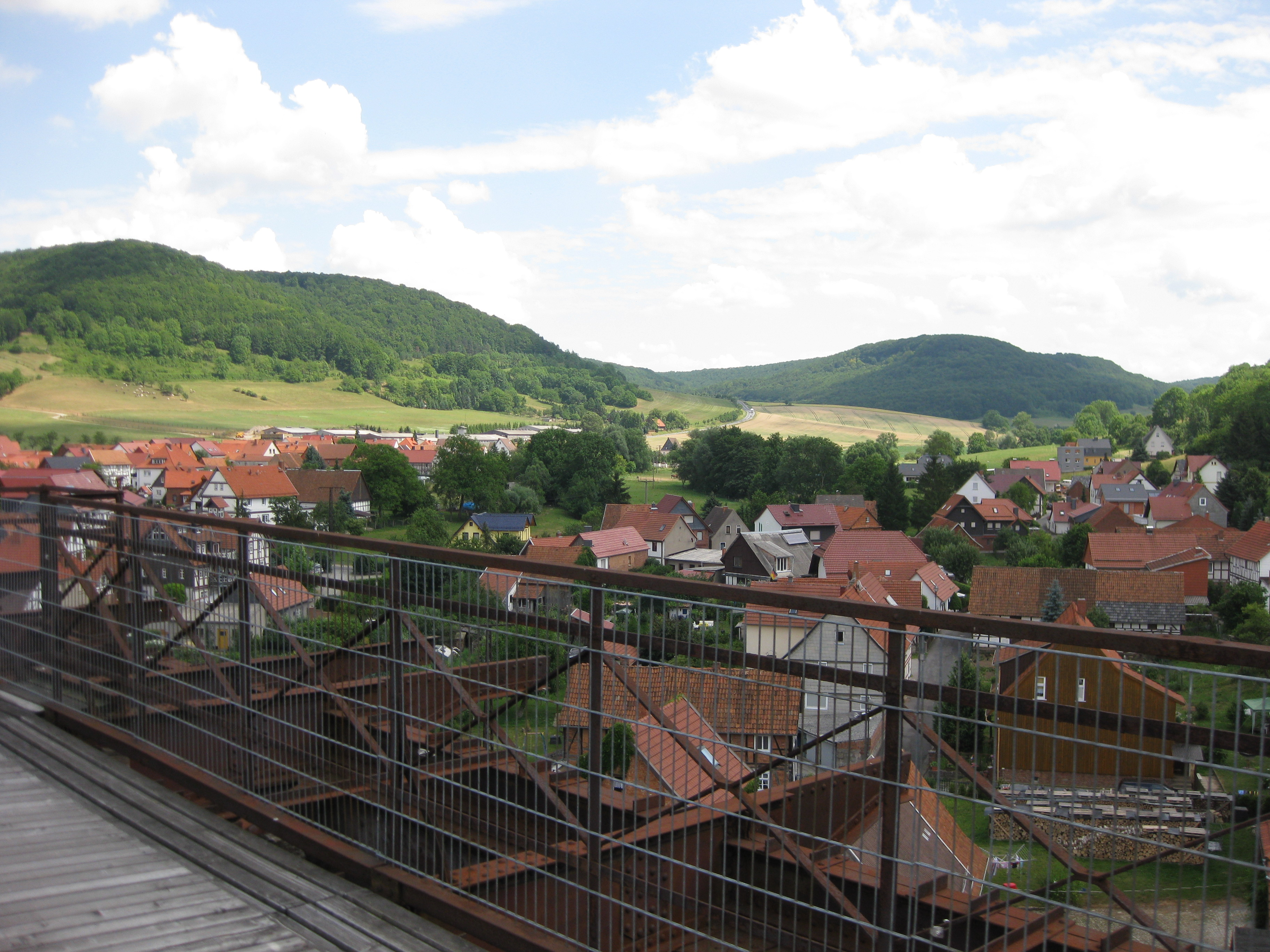 Obereichsfelder Höhen